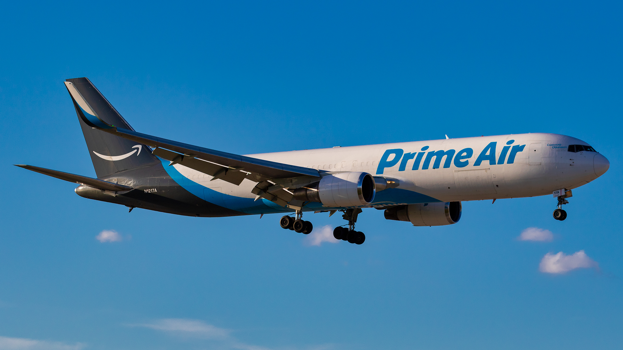 Prime Air Boeing 767-300F N1217A operated by Atlas Air Inc. Manufacturer Serial Number (MSN): 25865 Line Number: 430